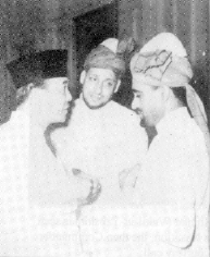 From left to right President Soekarno (The first President of The Republic Indonesia), Said Syah Muhammad(the then President of the Ahmadiyya movement in Indonesia), Hafiz Quadratullah, (Ahmadiyya Missionary) during the reception party of Independence Day (1950) in the Presidential Palace at Jakarta.